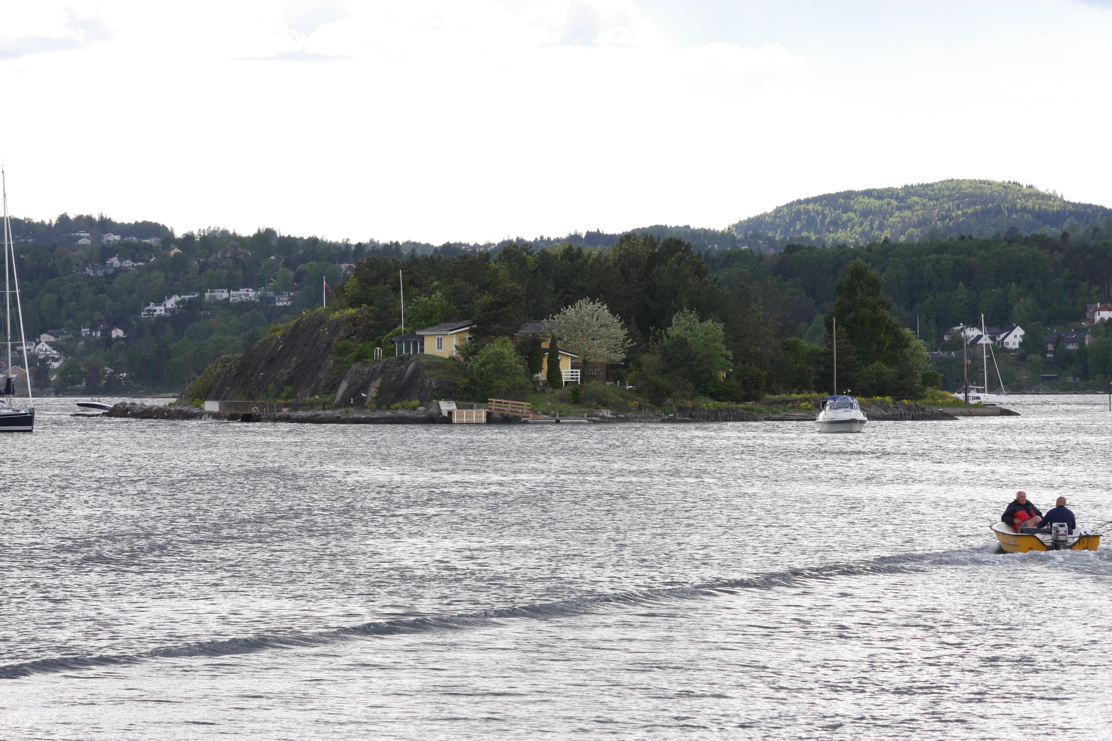 SKurven basin, with Spannlokket islet in the archipelago of Asker municipality, Akershus, Norway.